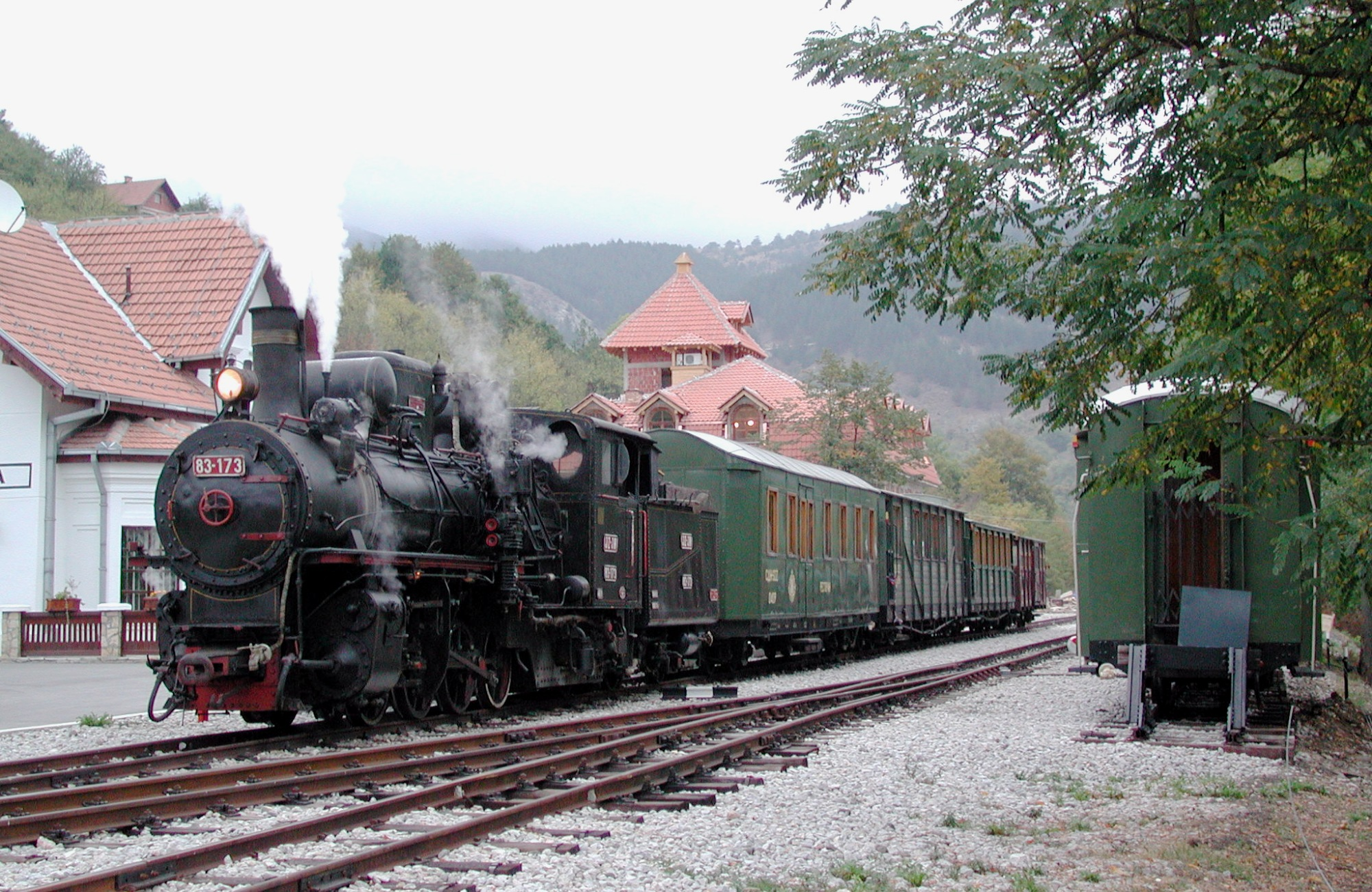 en: Passenger train with JDŽ 83-173 in Mokra Gora station, on the Šarganska osmica heritage railway in Serbia. de: Personenzug mit JDŽ 83-173 im Bahnhof Mokra Gora der Museumsbahn Šarganska osmica in Serbien.